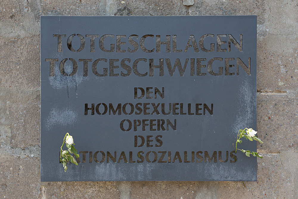 Memorial plaque at Sachsenhausen Concentration Camp